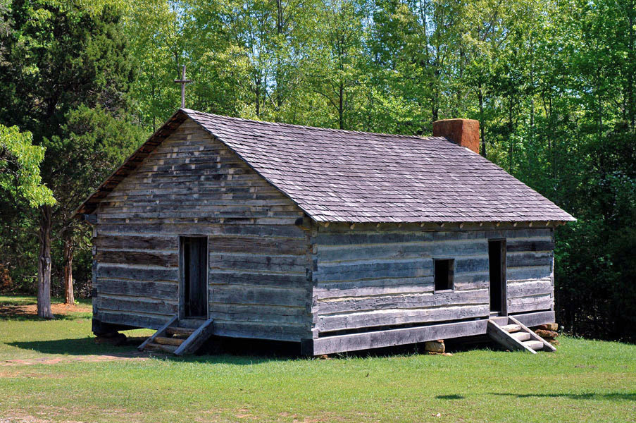 Photograph of Shiloh Church at the Shiloh battlefield, April 2006, by Donald Wiles, donated to Wikipedia, Photoshopped by Hal Jespersen.